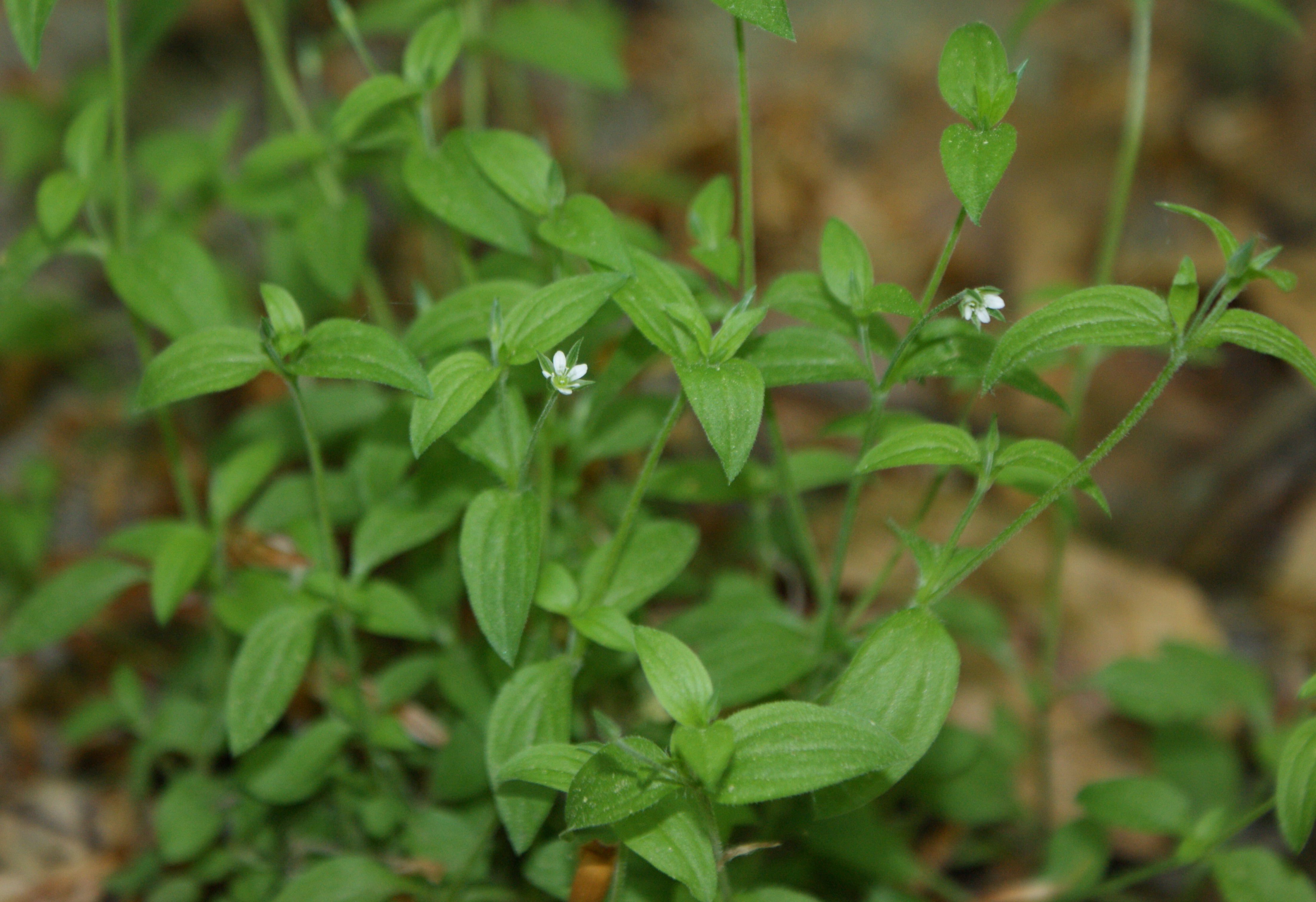 Moehringia trinervia, Szczecin (NW Poland)